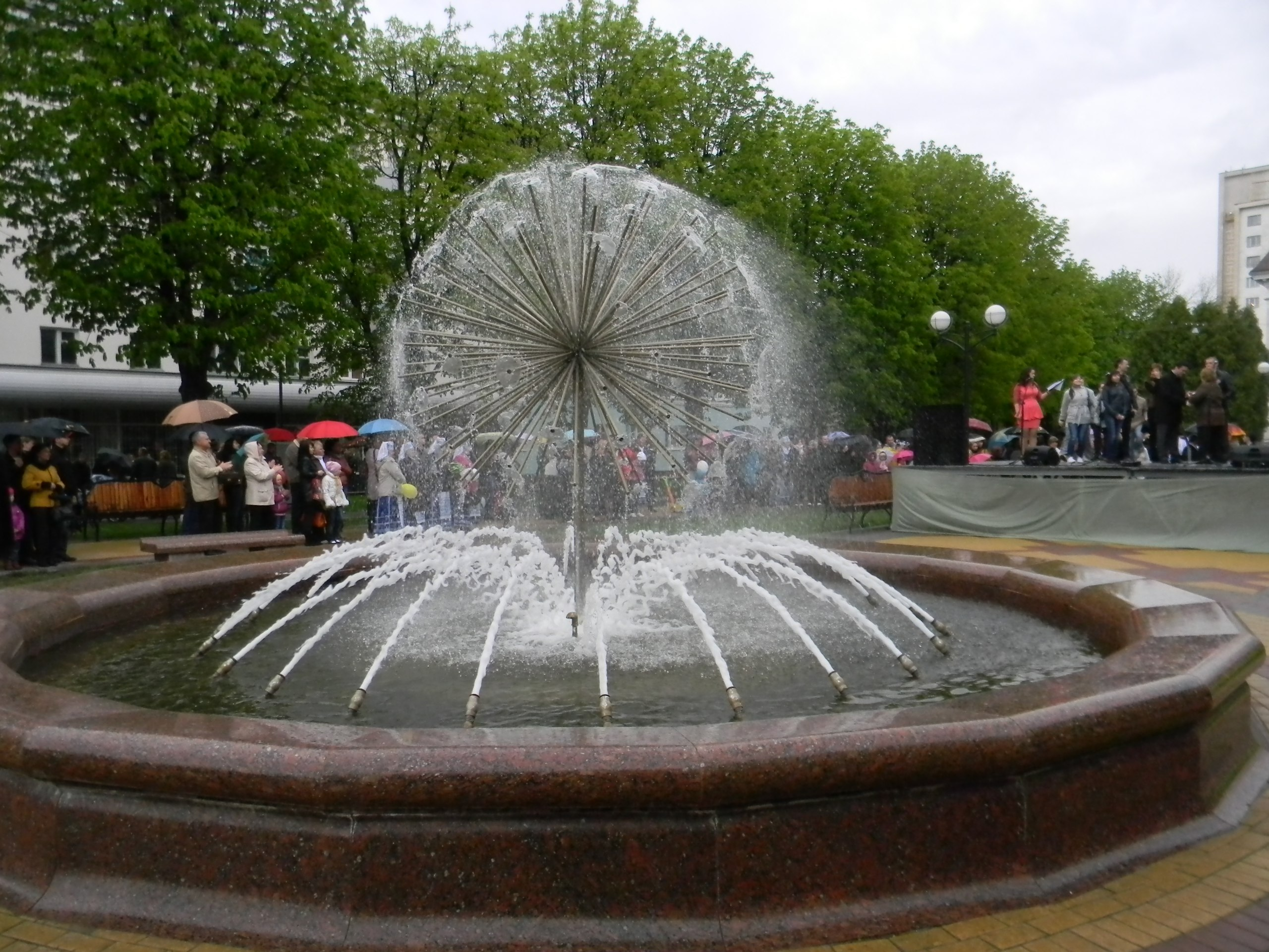 Фонтан "Одуванчик" Железнодорожный район г. Гомель